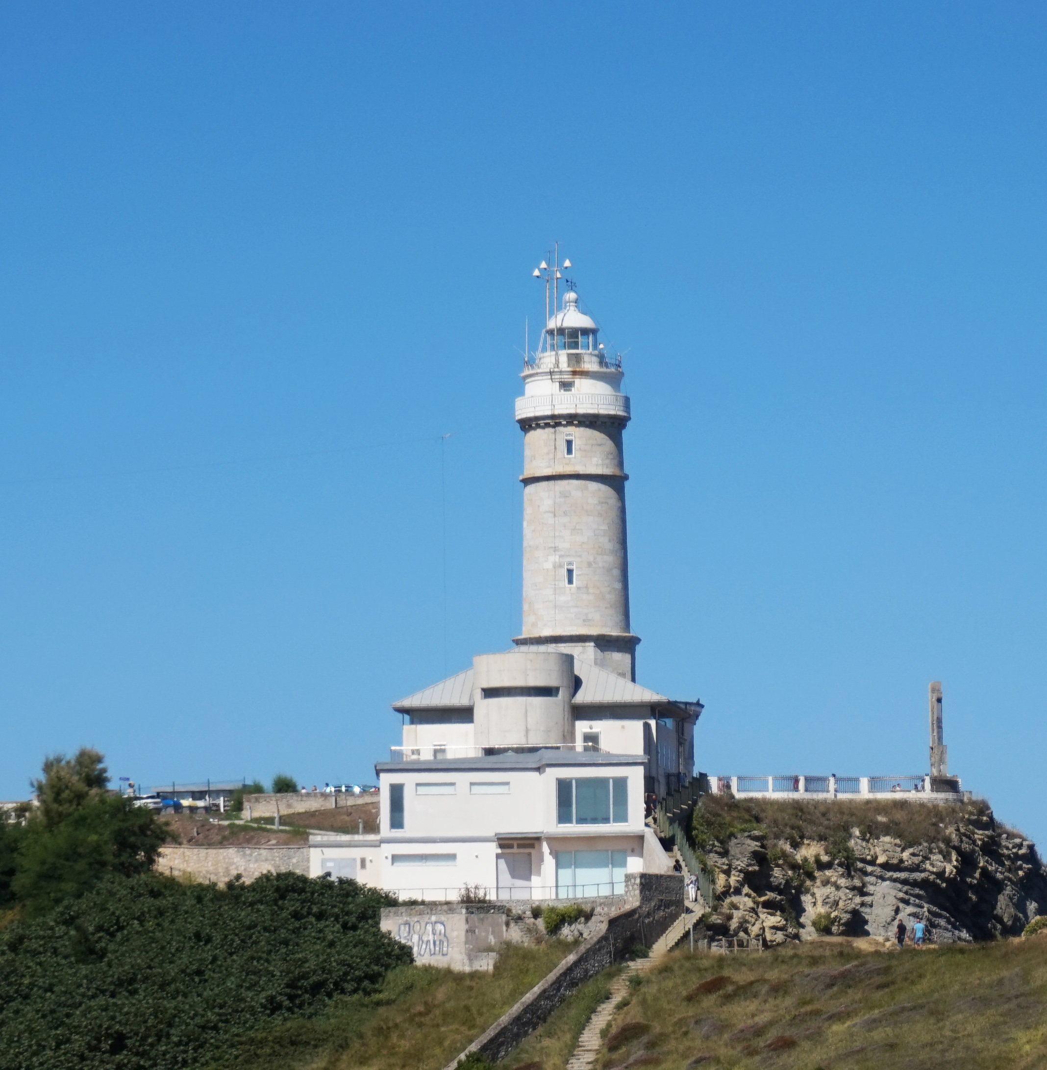 The lighthouse Faro de Cabo Mayor in Santander, Spain. This photograph was taken with a Sony Alpha a5000.